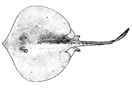 Urotrygon peruanus